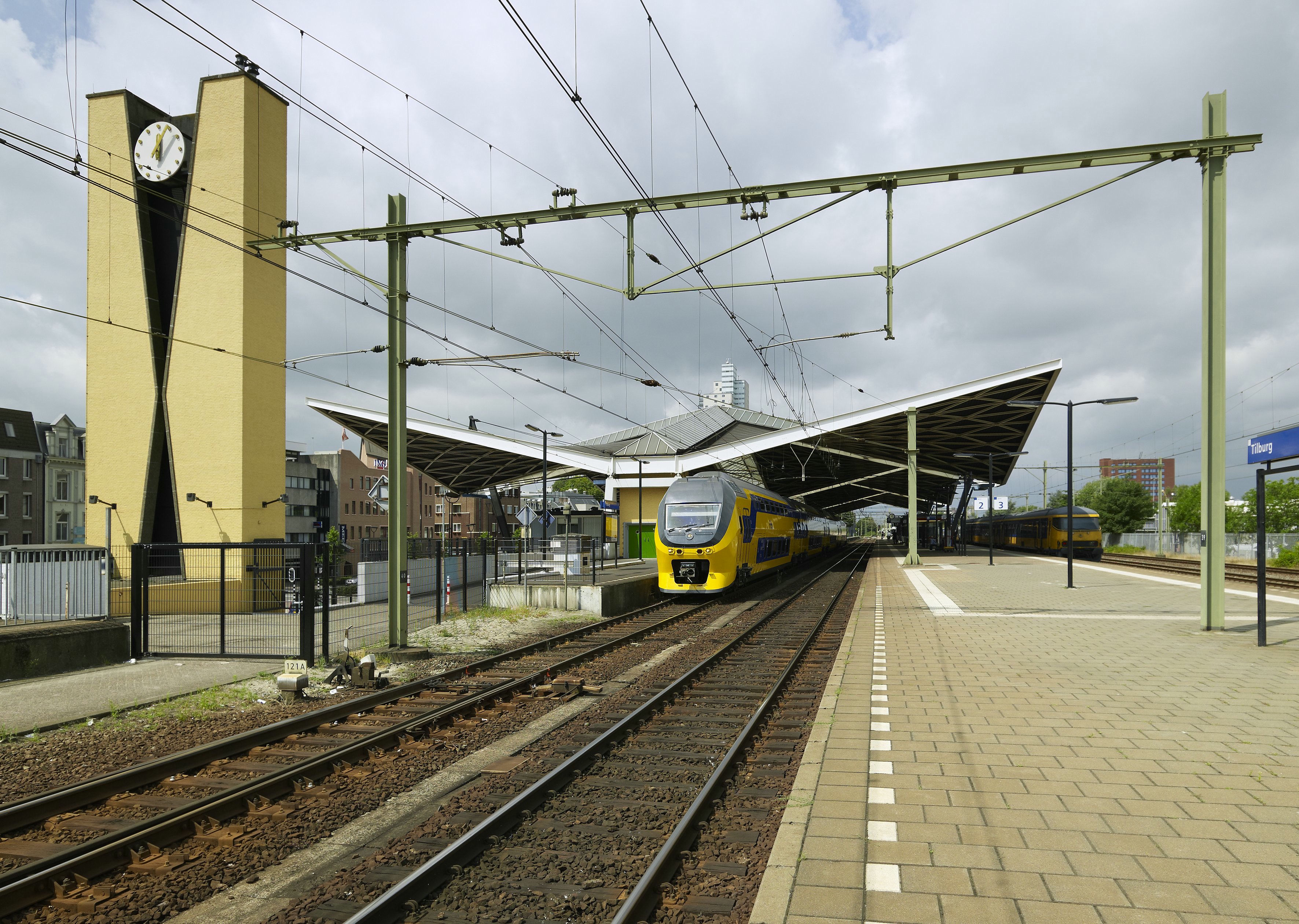 Tilburg Station: Overview of a train on the tracks